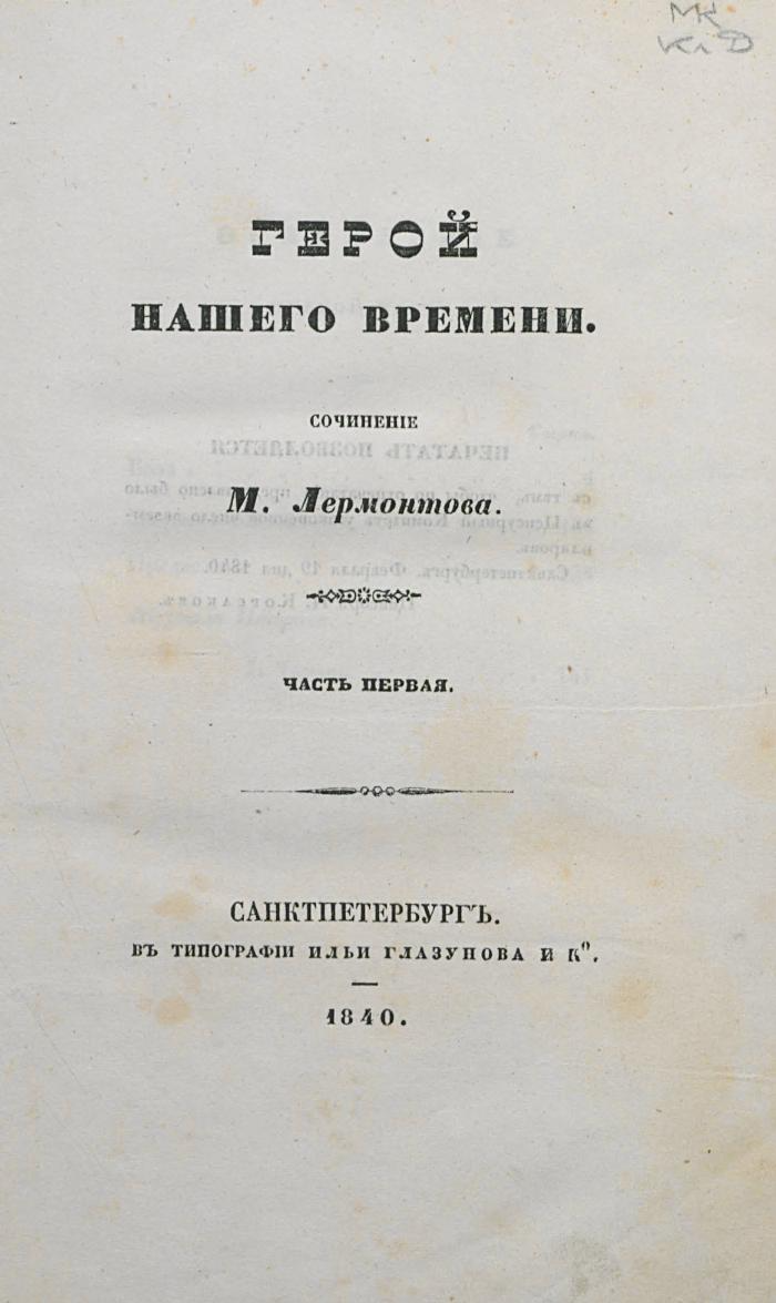 Title page of the 1st edition of "A Hero of our time" novell, written by M. Lermontov in 1840